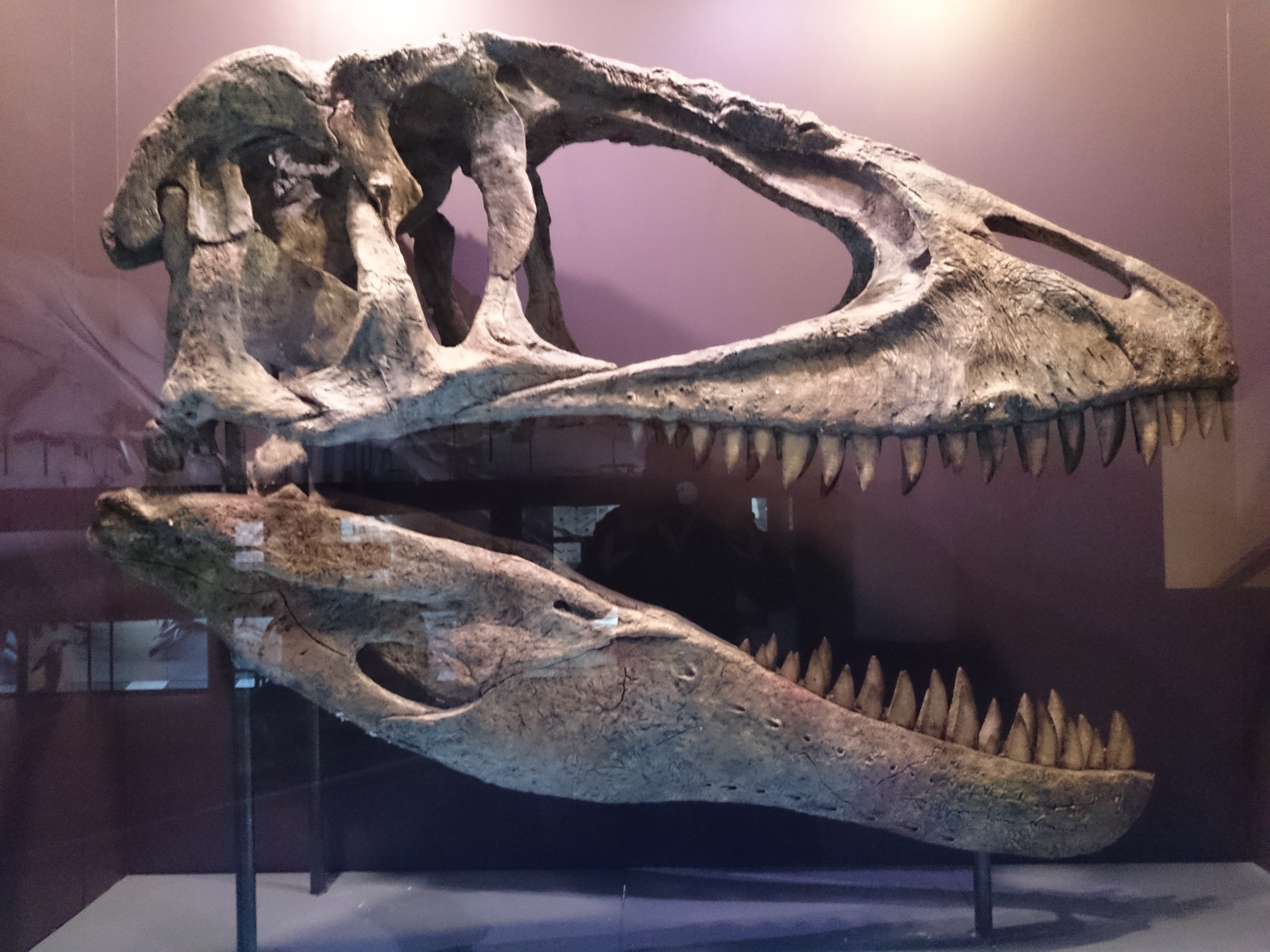 Carcharodontosaurus was a giant theropod dinosaur with 15 centimetre long serrated teeth and an estimated boy length of nearly 14 metres. This is a cast of a fossil skull of Carcharodontosaurus found in Morocco